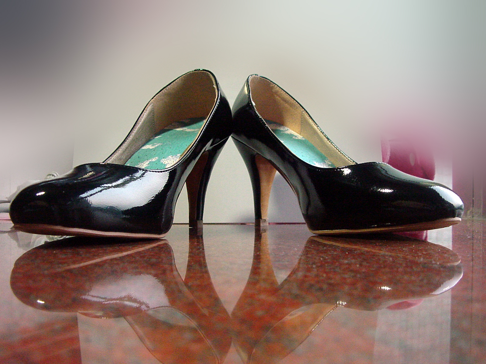 A pair of circular-head pumps in black leather with 8 cm (3.14") stiletto heels